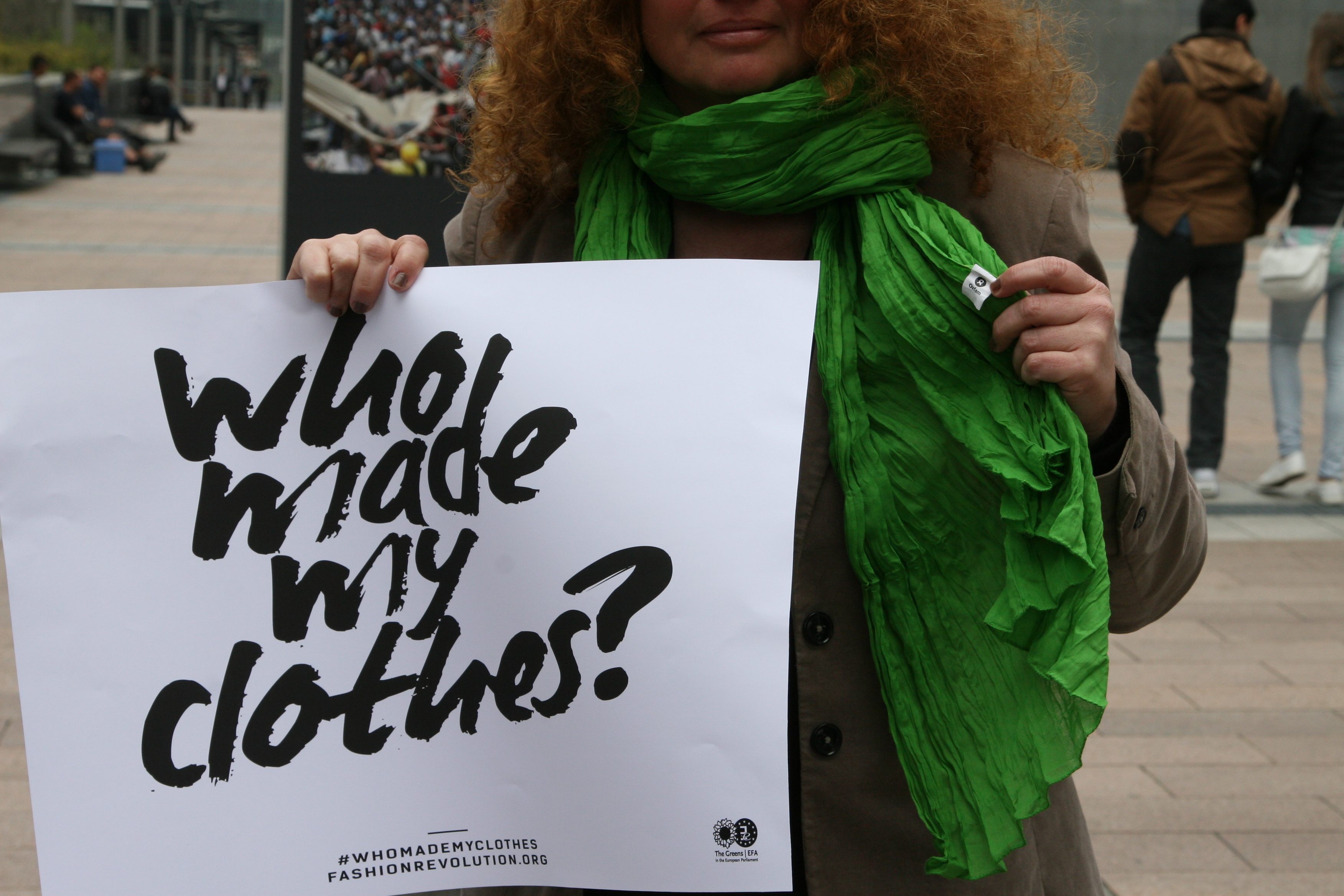 A protestor holds a poster to promote the #WhoMadeMyClothes movement and shows off a clothing tag that displays where the scarf was manufactured.